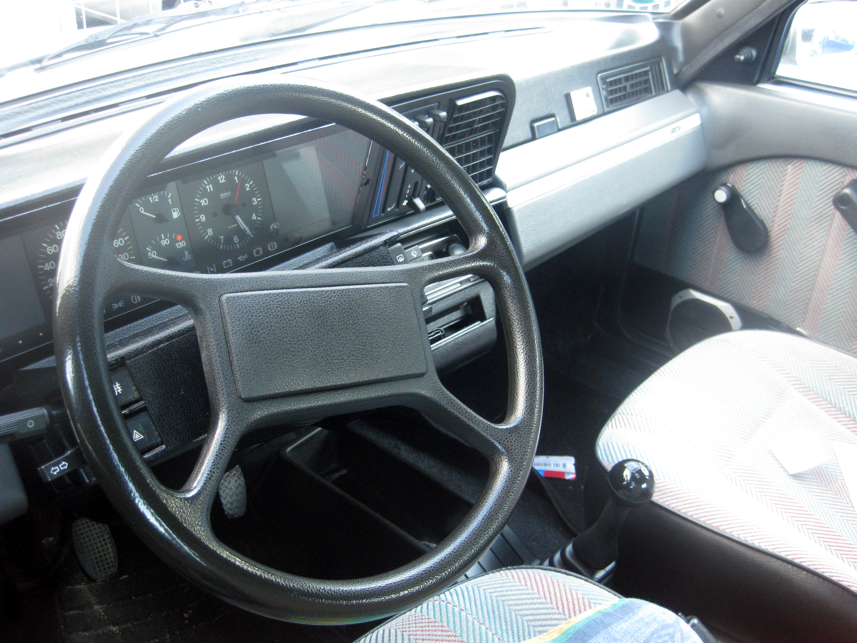 Fiat Regata 75ie Eleganza